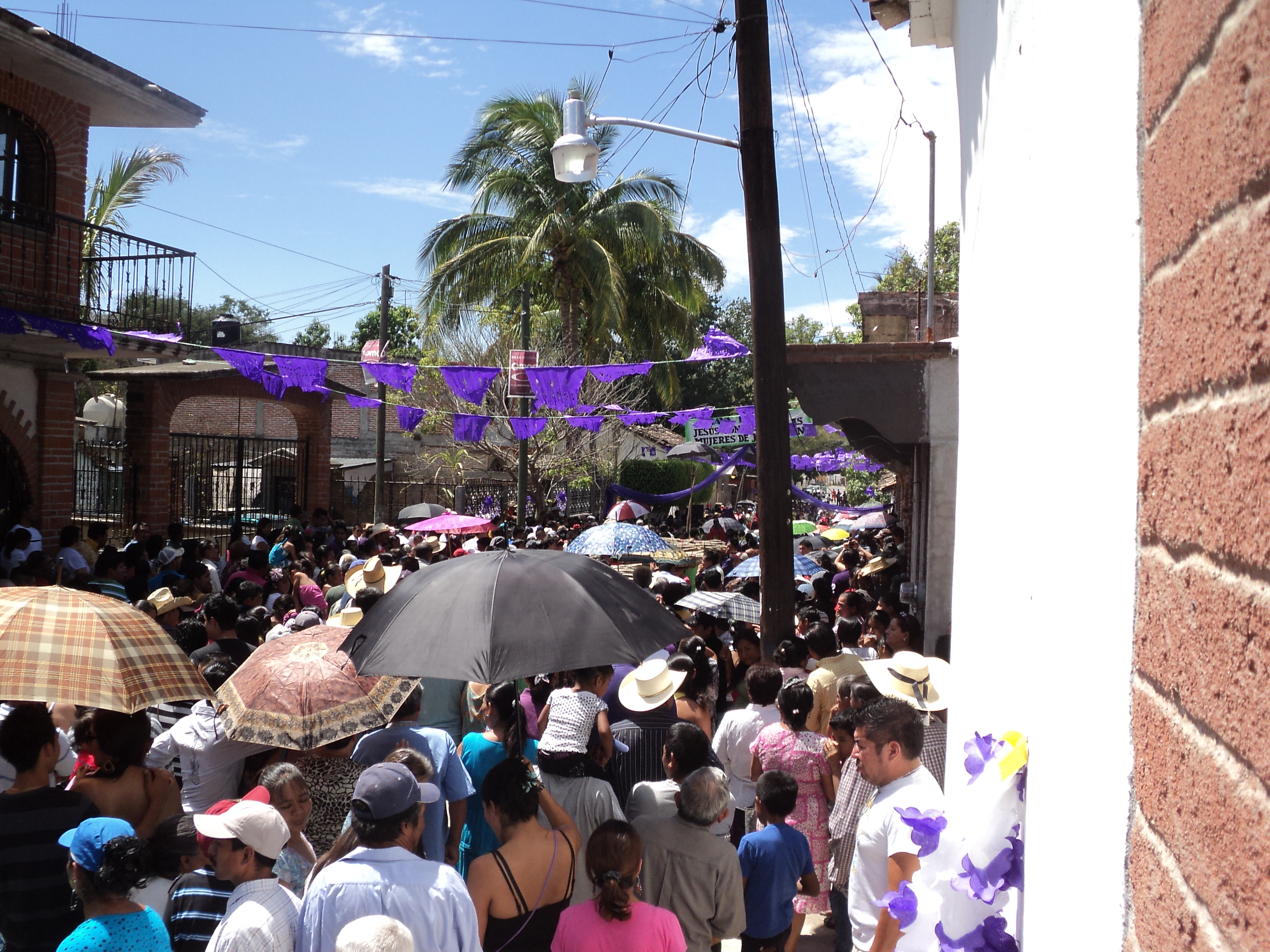 During the Holy Week in this small town (Cocula, Guerrero, Mexico) lots of people participate in the San Bartolo procession.